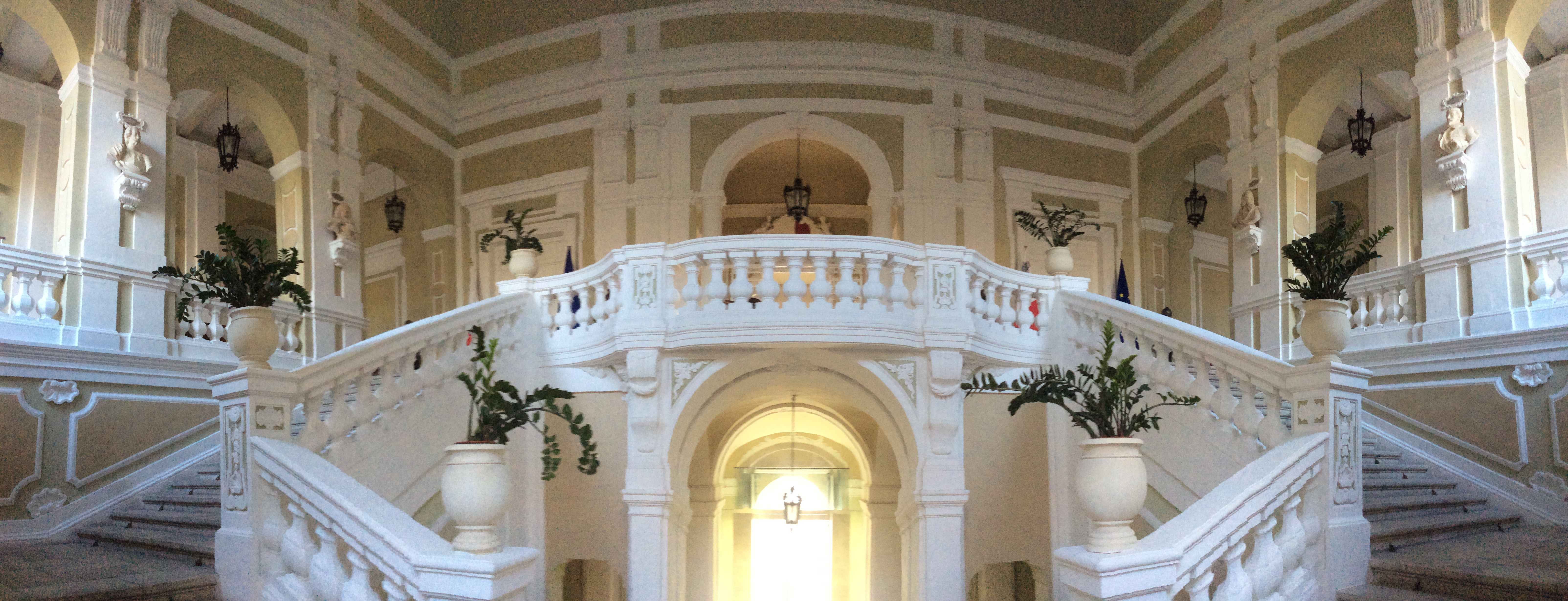 Auberge de Castille